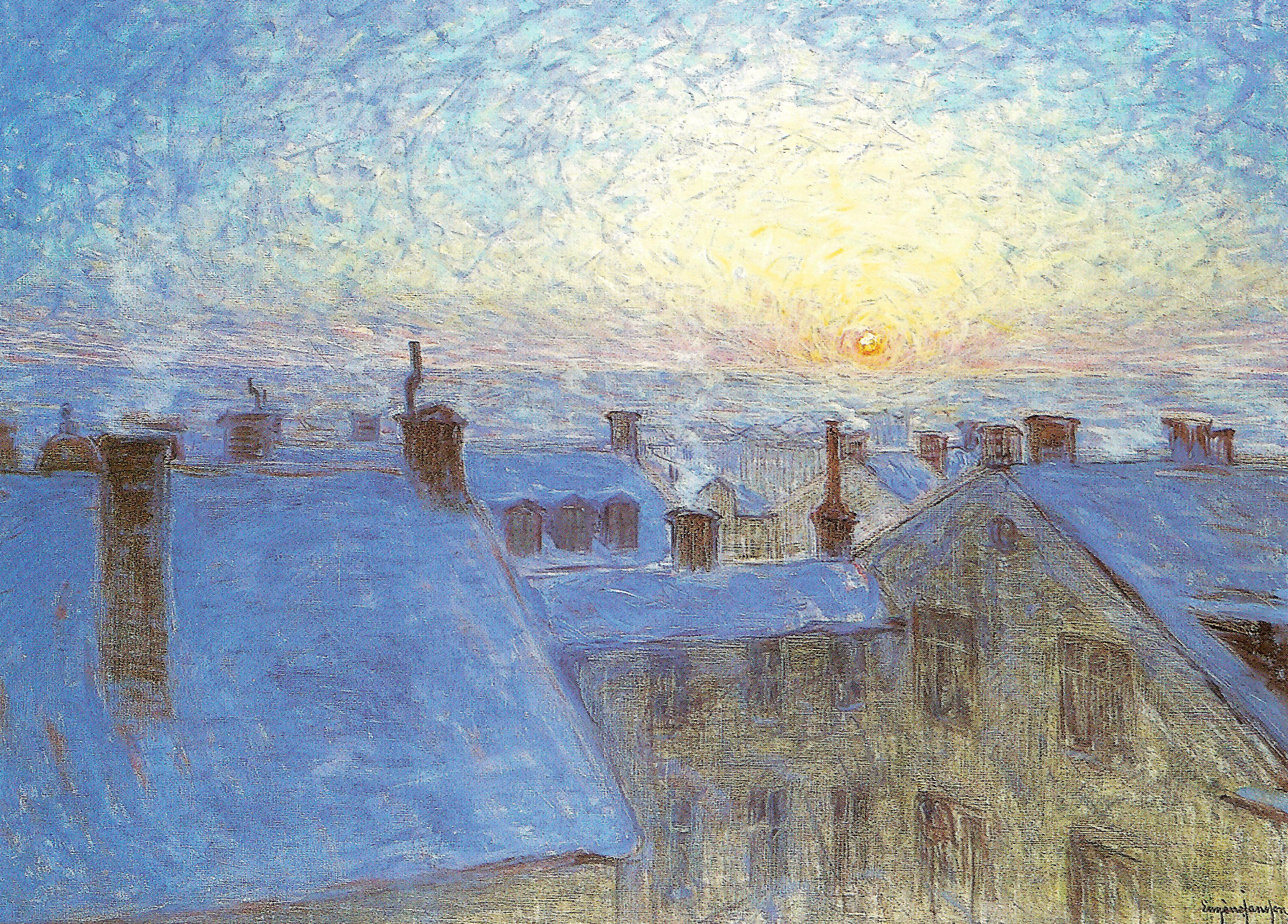 Sunrise over the rooftopslabel QS:Len,"Sunrise over the rooftops"